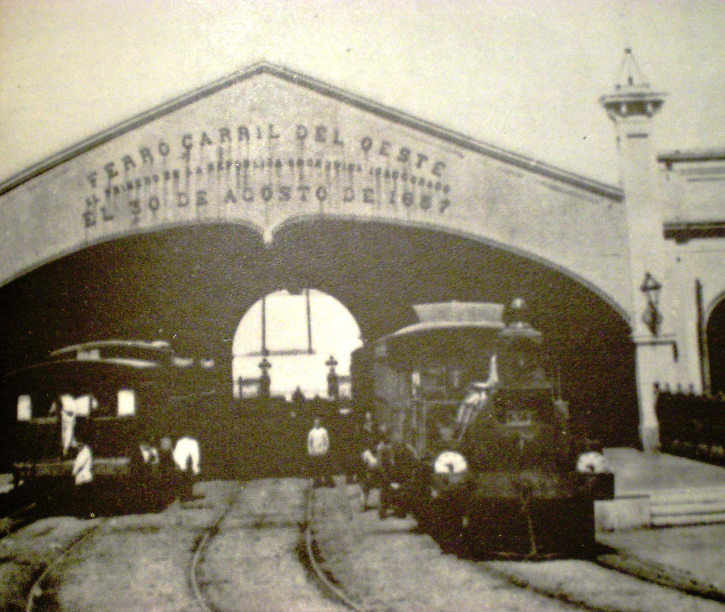 Del Parque station of Buenos Aires Western Railway. The legend above said: "Ferrocarril del Oeste. El primero de la República Argentina. Inaugurado el 30 de Agosto de 1857.